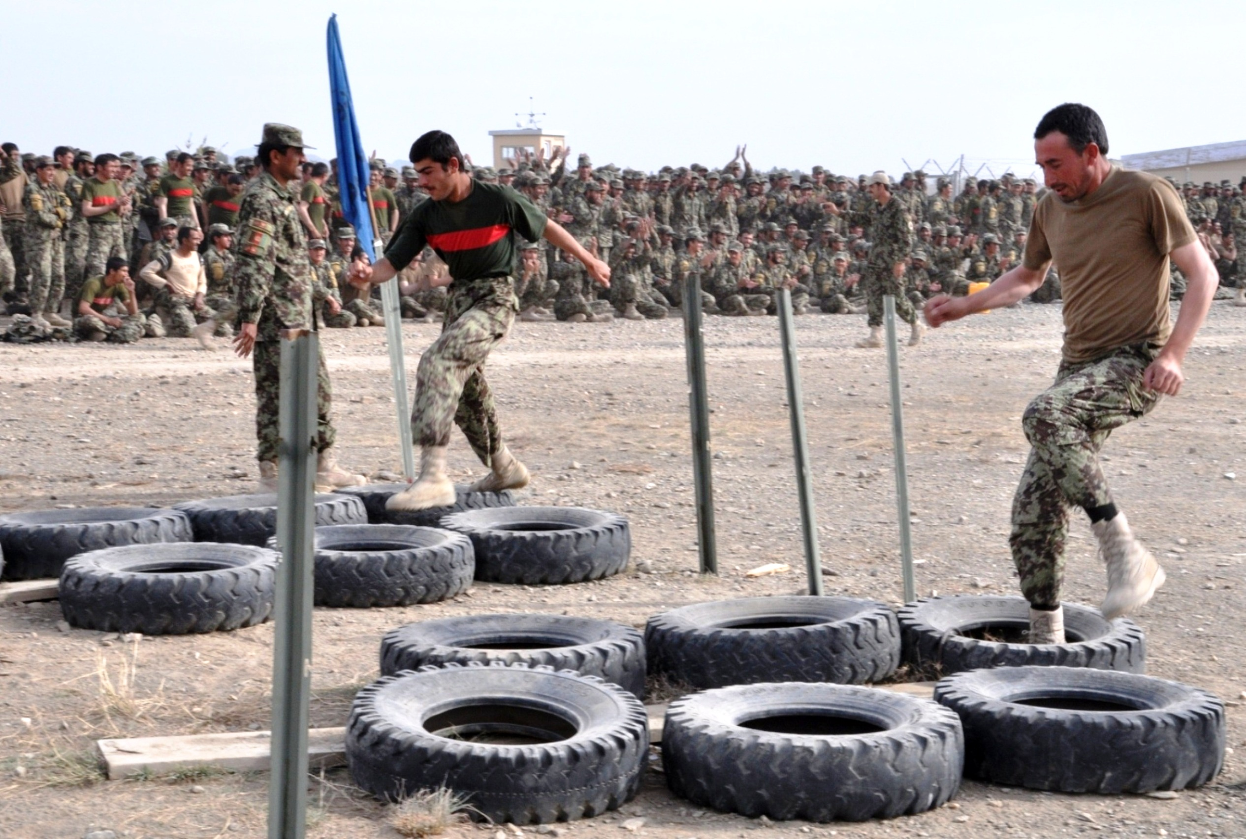 Students from the Afghan National Army 203rd Corps’ 1st Brigade Regional Basic Warrior Training course hop through tires during an obstacle course competition at Khost Training Center Nov. 21. During RBWT students learn different squad attacks, ambush techniques and marching. (Photo by Air Force Staff Sgt. Sarah Martinez)